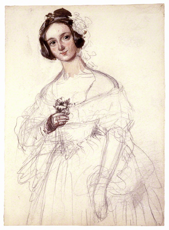 Drawing, possibly of Emma Romer, by Alfred Edward Chalon, pencil and watercolour, circa 1836. Now in the possession of the National Portrait Gallery in London.